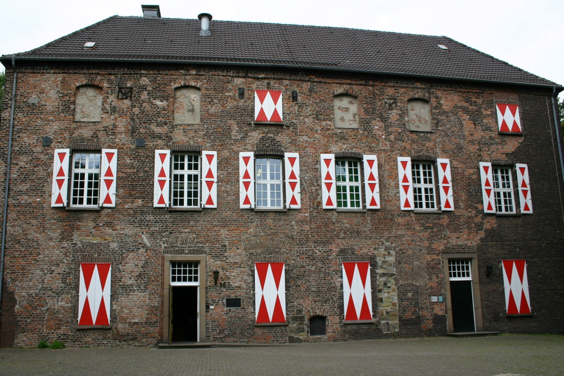 Holten Castle in Oberhausen (Germany)